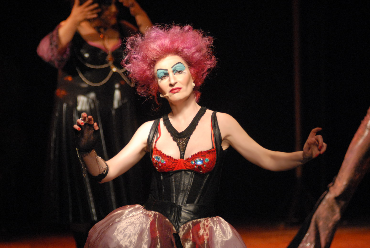 יעל ברנפלד מתוך ההצגה 'ארץ בושת' של תיאטרון נוצר